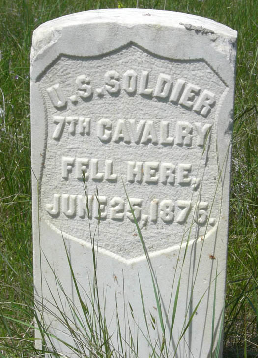 Marker stone at the Little Bighorn Battlefield, Montana.